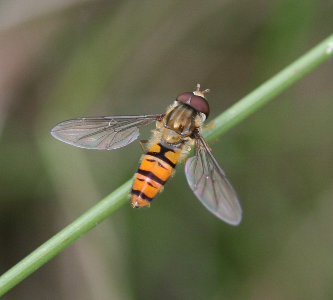 Episyrphus balteatus (male)